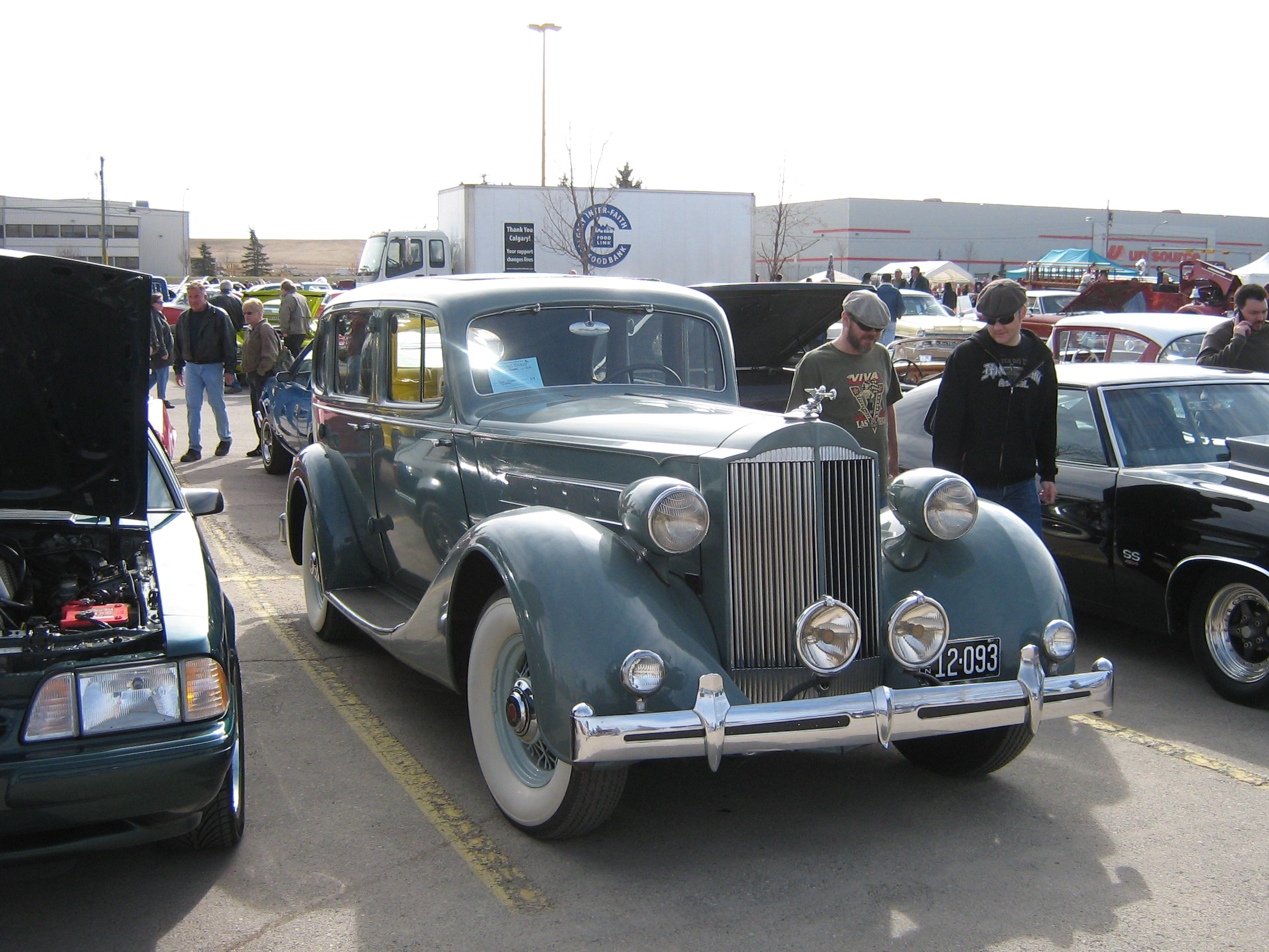 1935 Packard Eight Model 1200 5-passenger Sedan, body style #803 Straight 8 cylinder, 130hp, 319,2 cu inch engine, wheel base 127 in. at Spring Thaw Car Show 2009 (followinng flickr description)